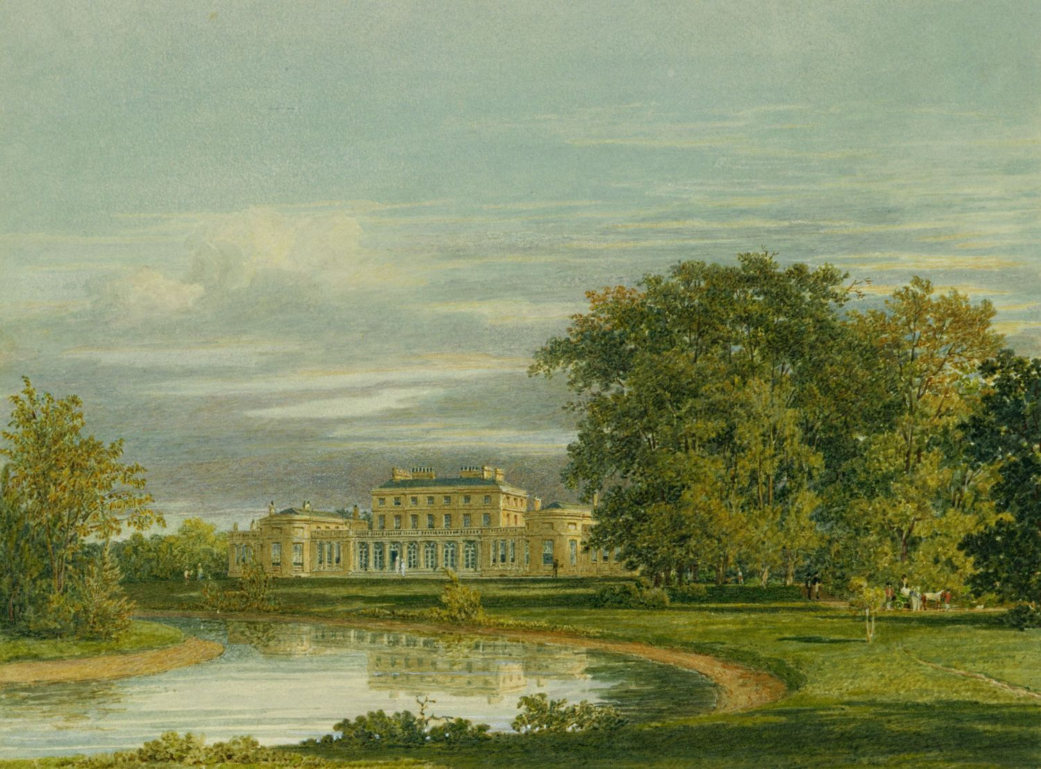 A view of the Garden Front of Frogmore House The aquatint engraving of this picture was published as plate 26 of W.H. Pyne (1819), The History of the Royal Residences